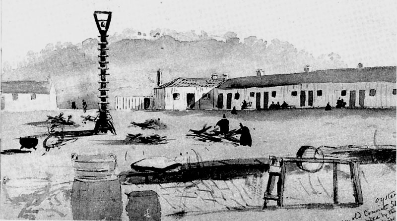 pic of oyster cove aboriginal centre